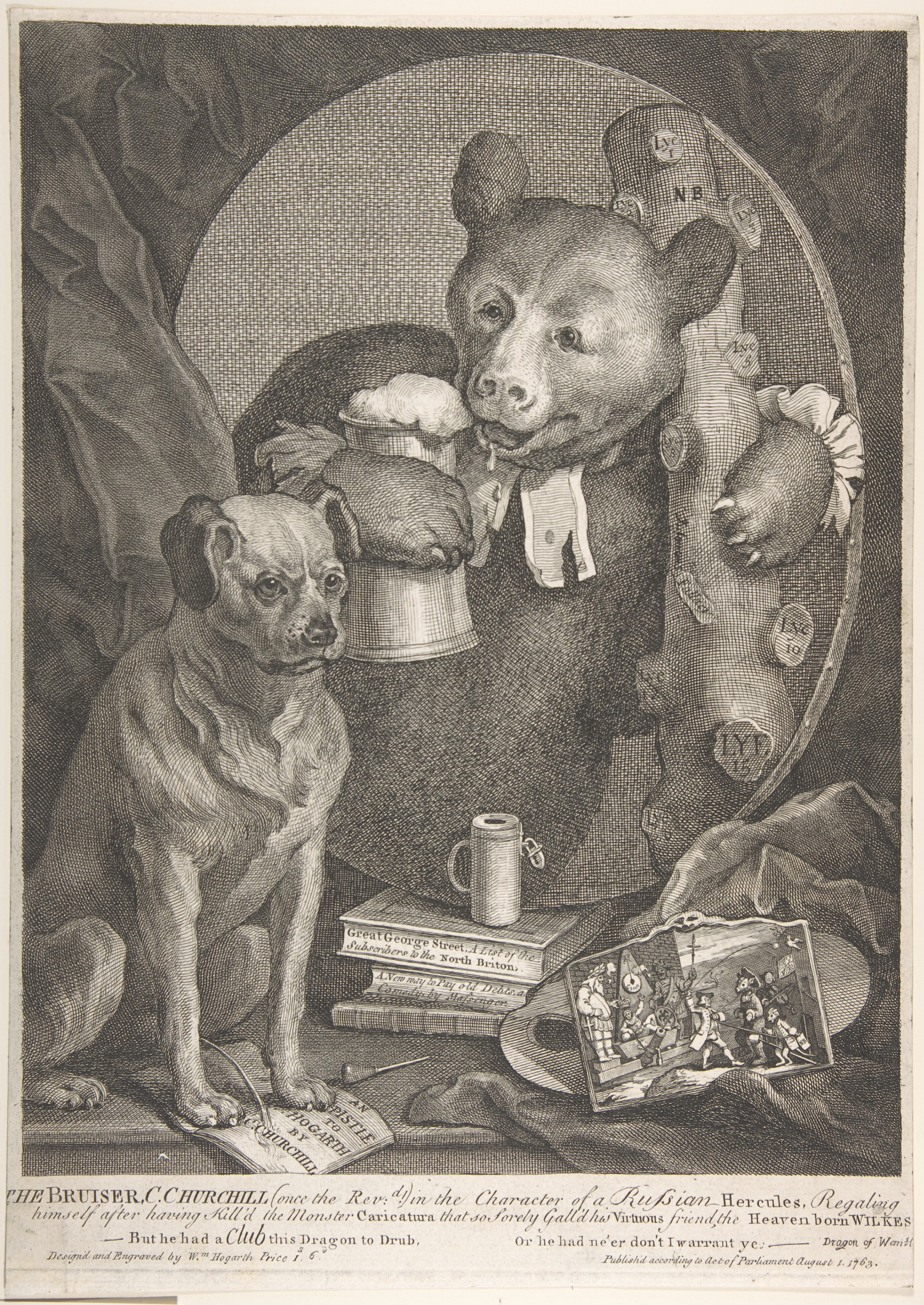 Print; Prints